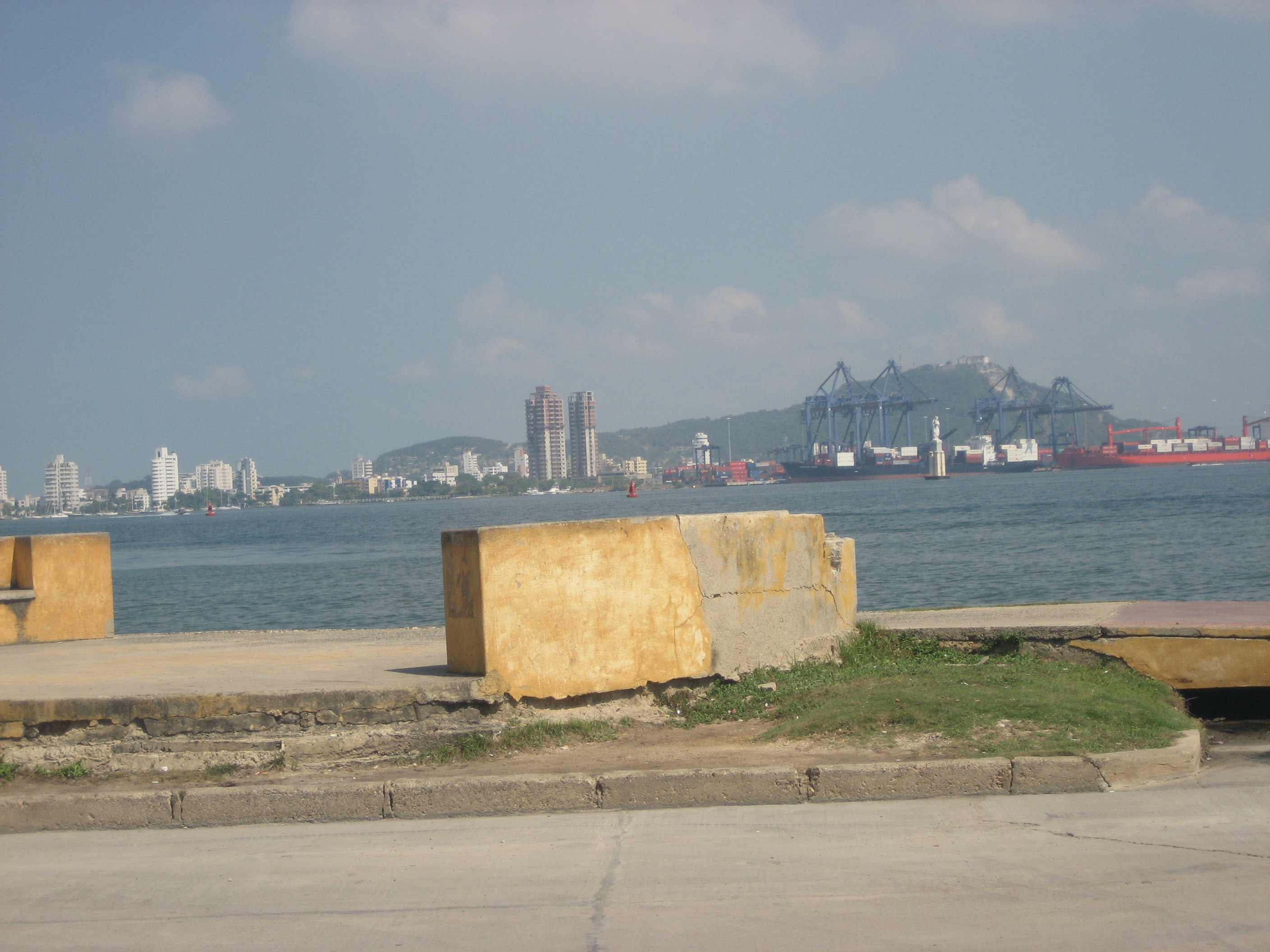 Image of Cartagena, Colombia